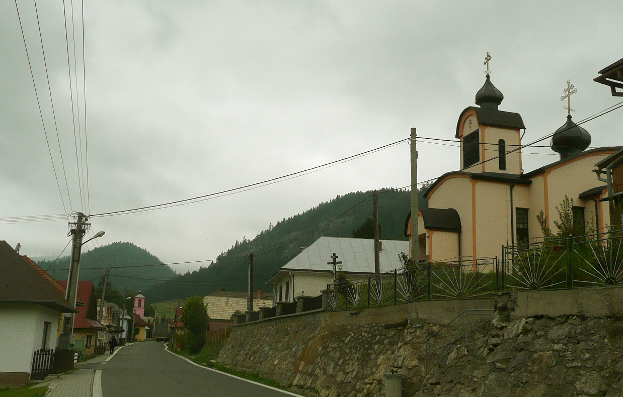 Greek catholic church in Vernar